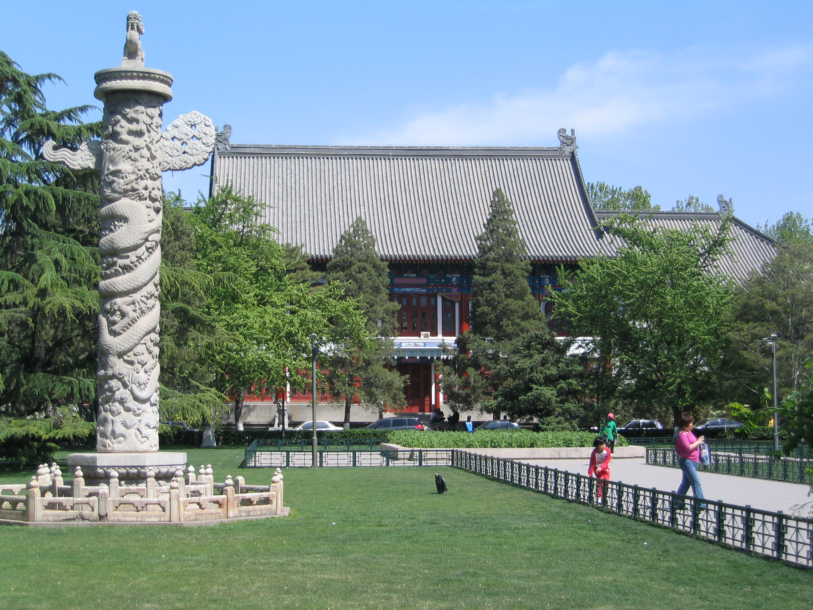 Peking University campus in Beijing, China.